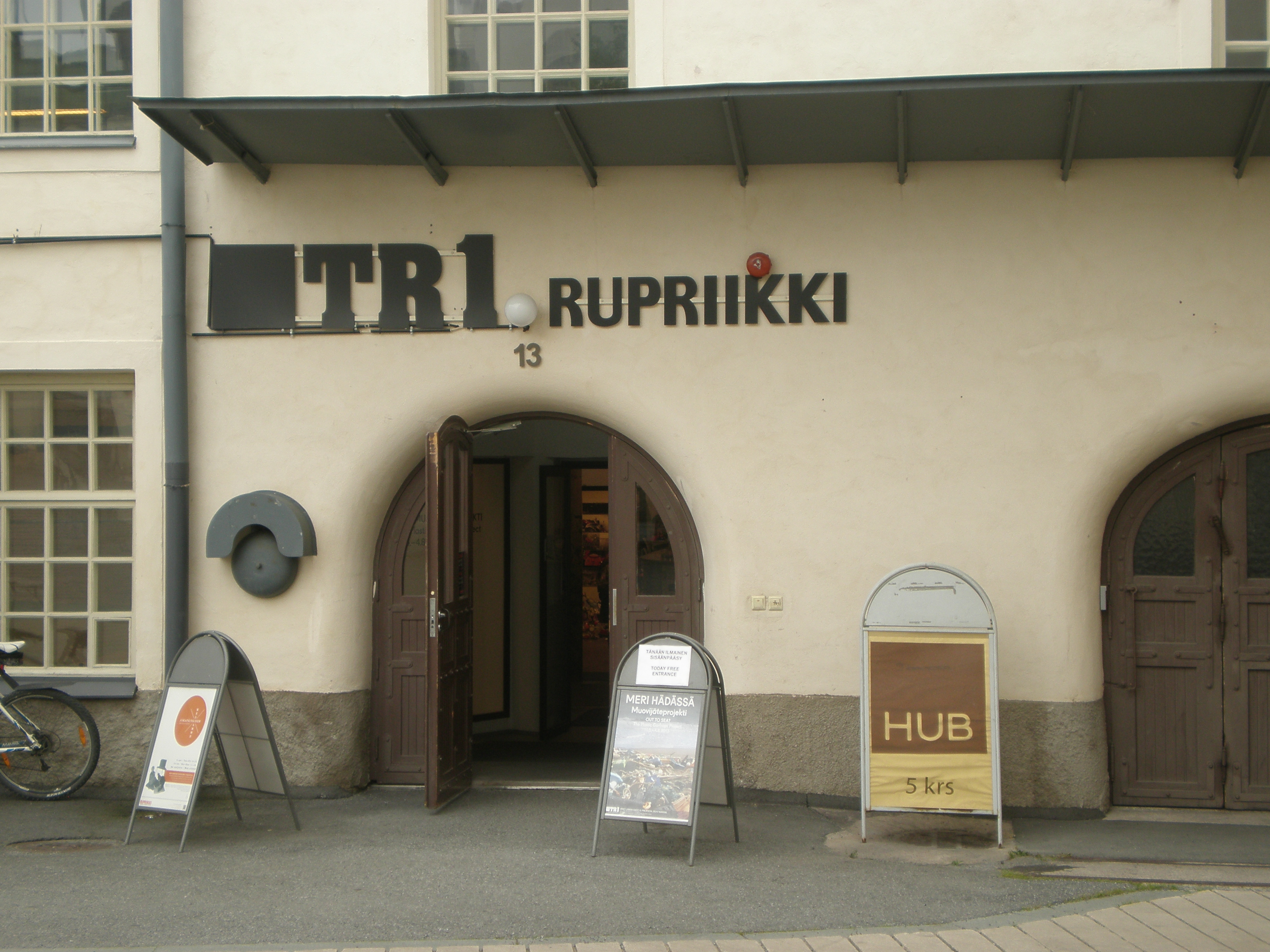 The entrance of Rupriikki Media Museum